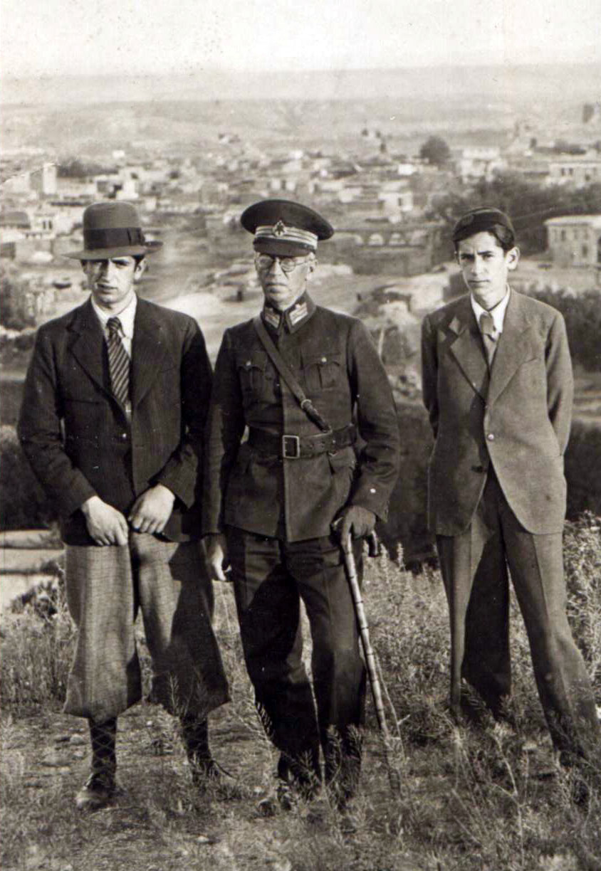 From left to right : Nusret Fisek, Hayrullah Fisek and Hicri Fisek in Edirne, 1933